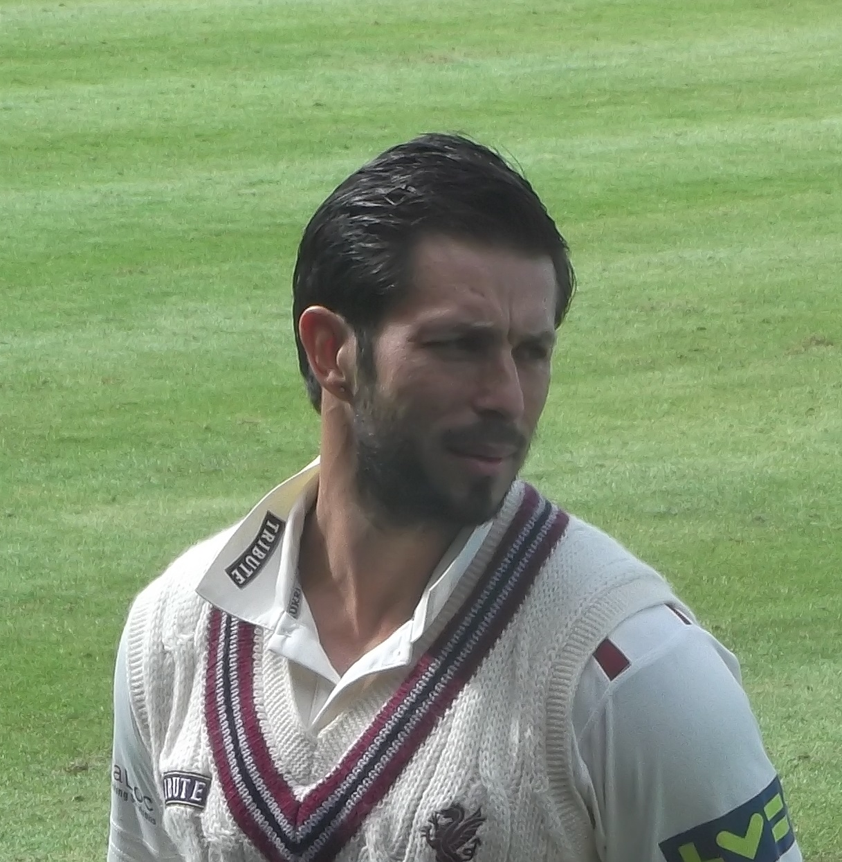 Peter Trego playing Devon CC in a Somerset 2nd XI game.